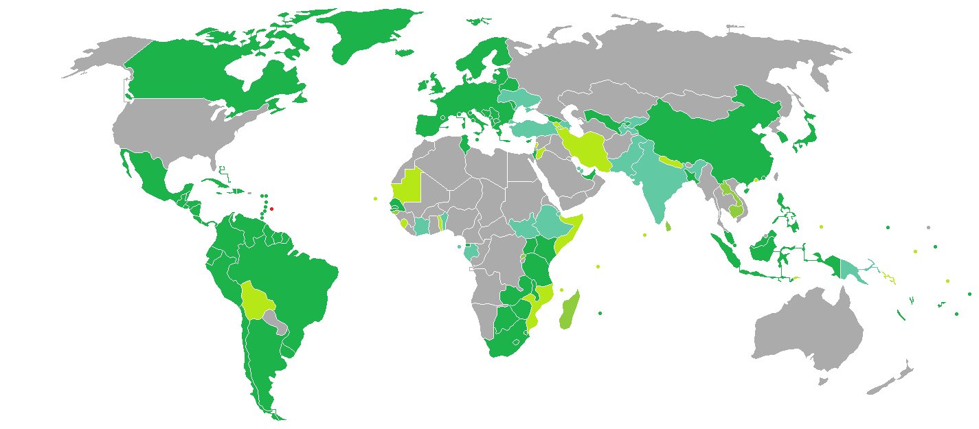 Visa requirements for Barbadian citizens Barbados Visa free access Visa on arrival eVisa Visa available both on arrival or online Visa required